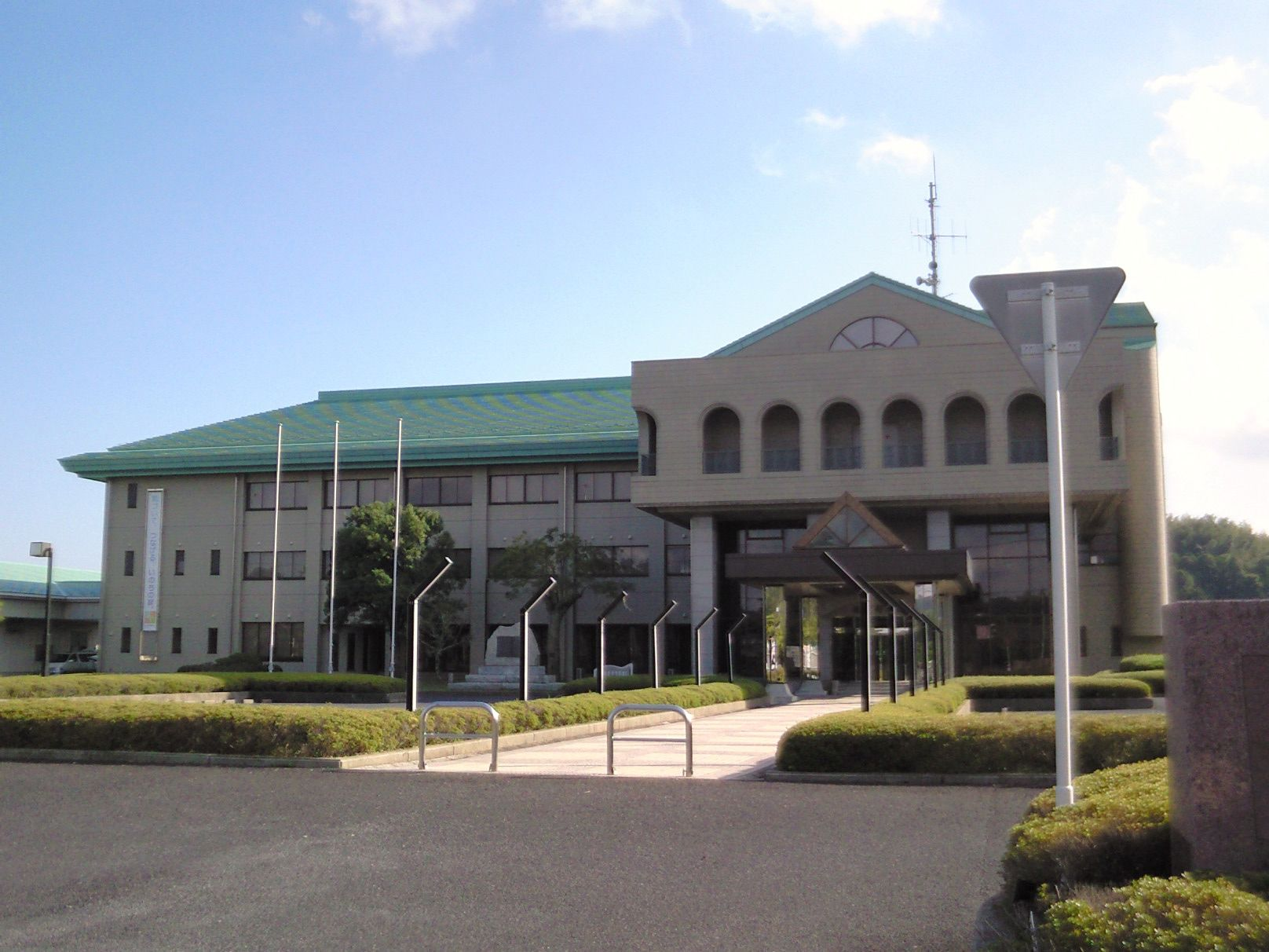 Mutsuzawa town office